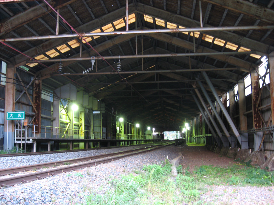 Osawa Station on Ou Main Line